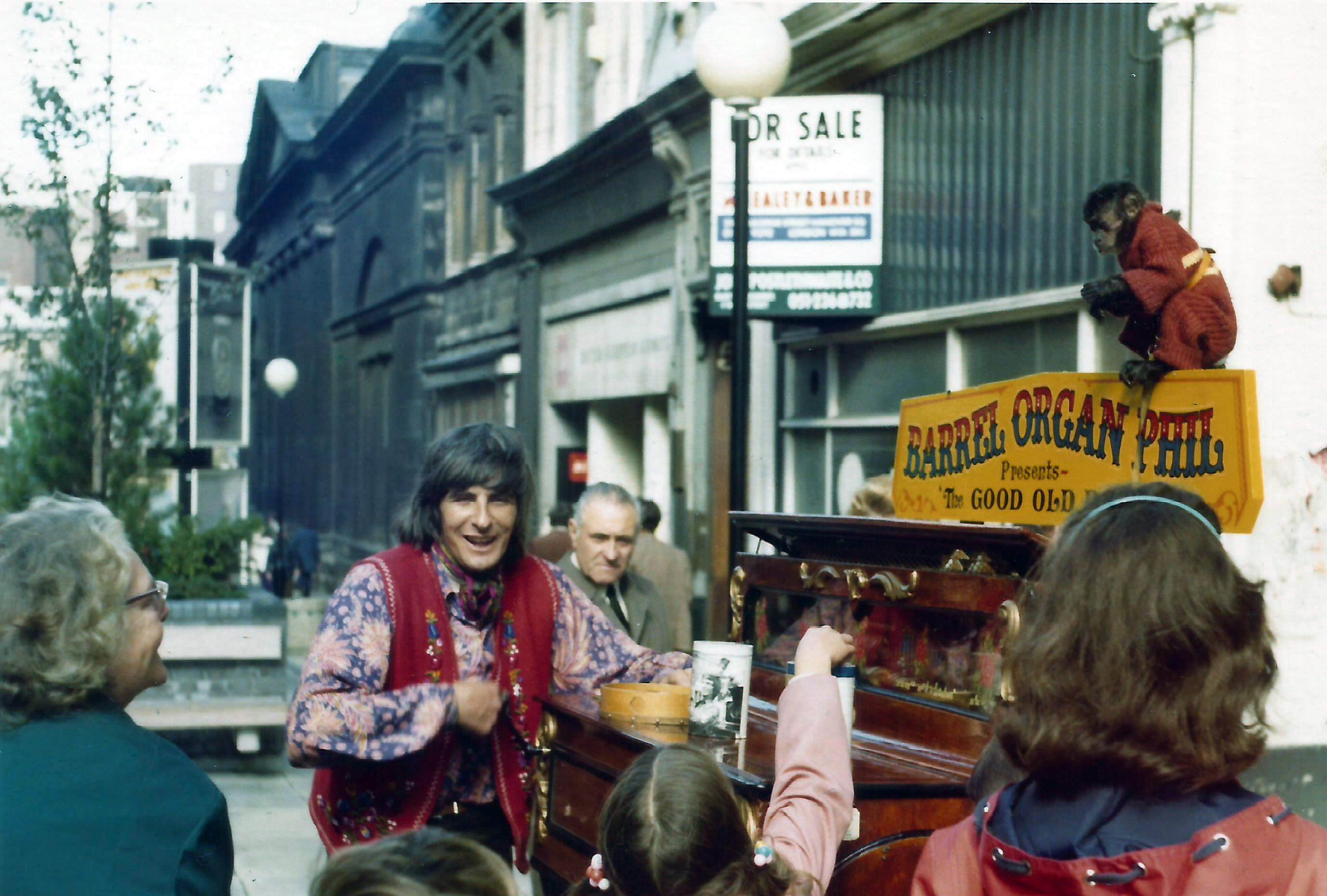 Barrel Organ player, with monkey, Bold Street, Liverpool 1975